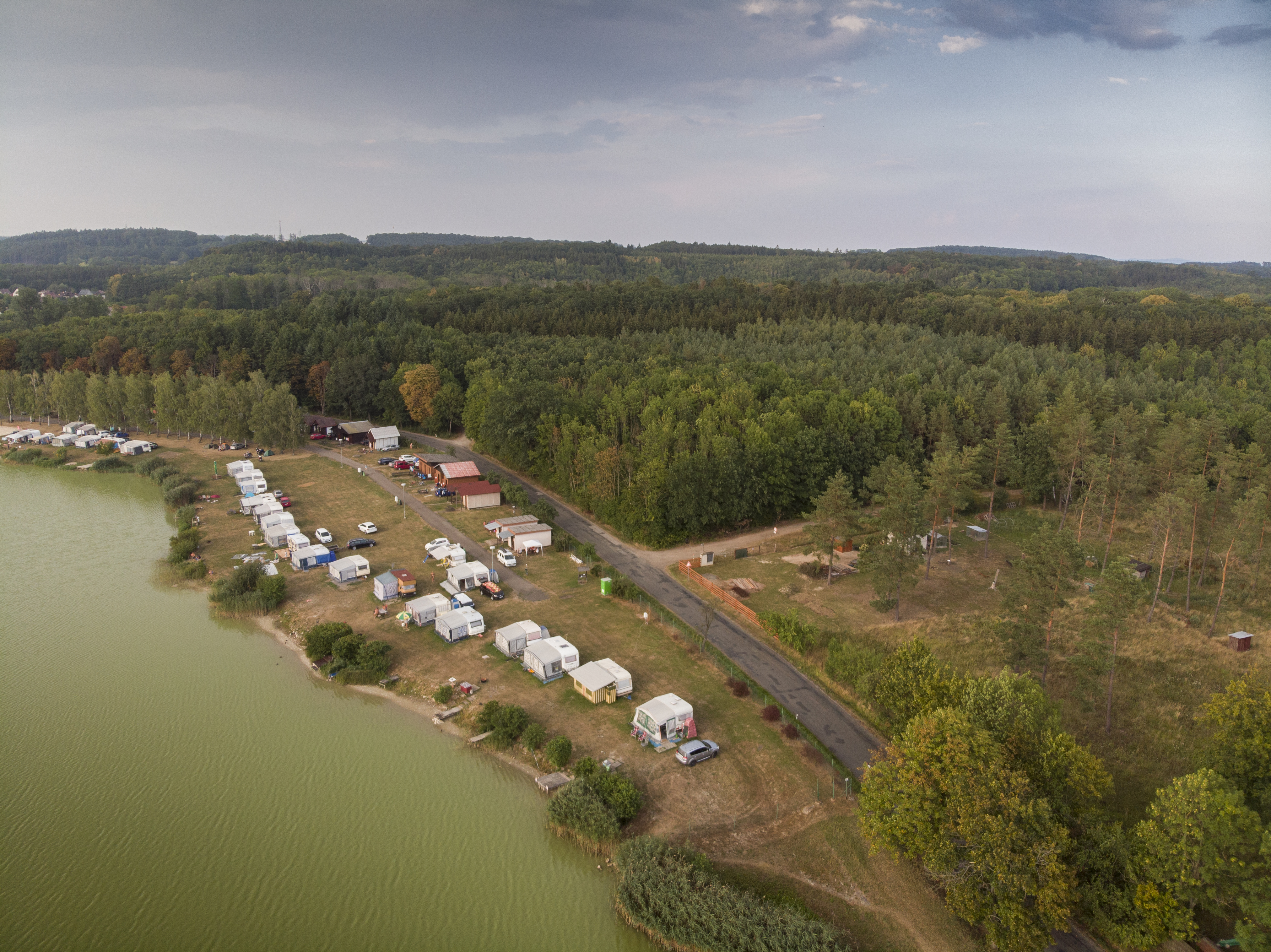 Nature reserve Vřešťovská bažantnice, camp Velký Vřešťov - Czech Republic, drone shot